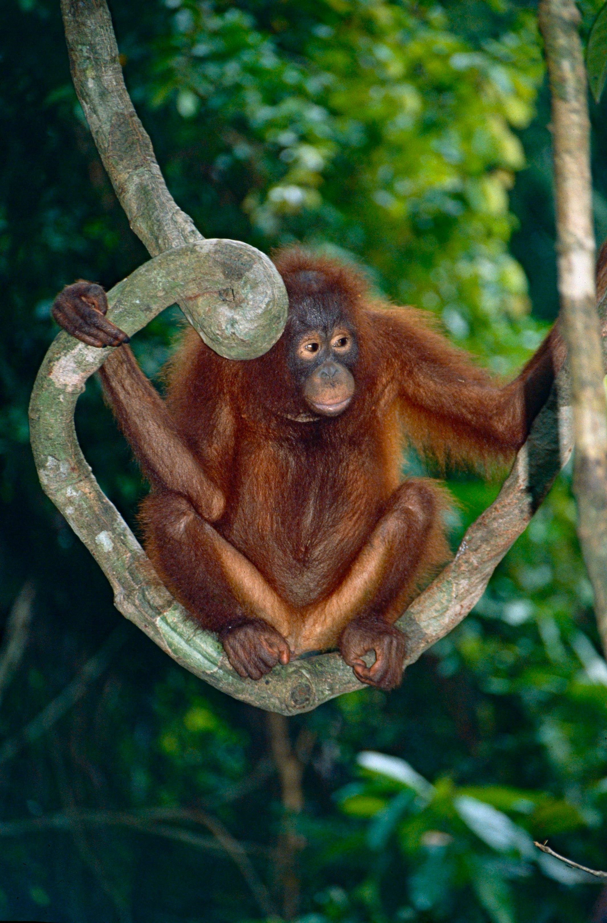 Sepilok Orangutan Rehabilitation Centre, Sabah, MALAYSIA Scanned slide from 2001